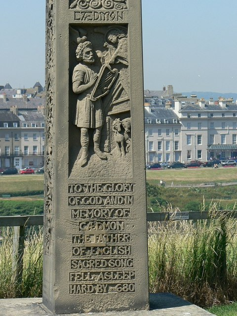 Memorial to Caedmon, St Mary's Churchyard. The inscription reads, "To the glory of God and in memory of Caedmon the father of English Sacred Song. Fell asleep hard by, 680"